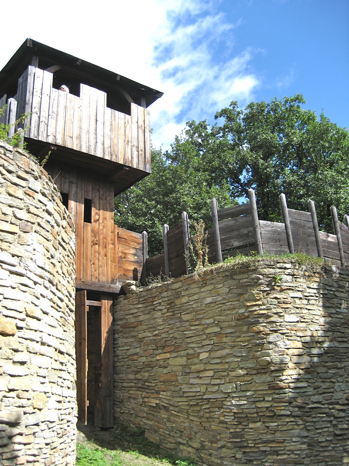 Recontructed Slavic gatehouse- exterior view. Slavic and Late Bronze Age Urnfield site to the west of the river Kamp and Gars am Kamp. This site, excavated in the 1980s by Vienna University, is an extension of the Greater Moravian Empire into what was to become Austria in the 7th and 8th centuries. Some of the banks (“Schanzberg”) on the site are Late Bronze Age (1050-800 BC) and seem to have been incoporated into the later defences. The gatehouse of the Slavic settlement and its box Ramparts have been reconstructed.